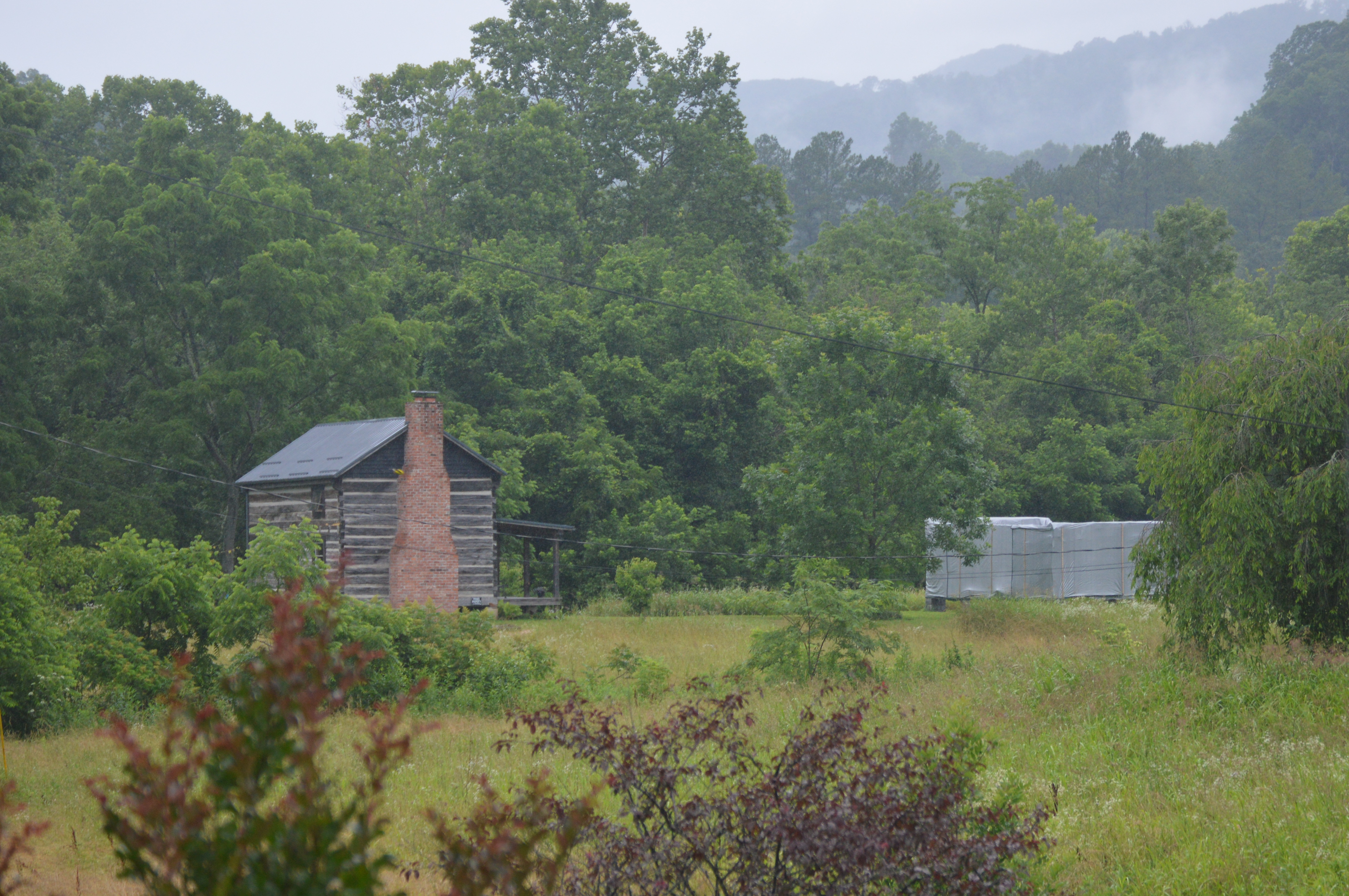 Overview of the Flanary Archeological Site from Twin Springs Road, located along State Route 65 and the Clinch River just east of Dungannon in Scott County, Virginia, United States. An important archaeological site, it is listed on the National Register of Historic Places.